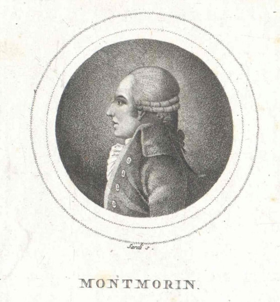 Armand-Marc Comte_de_MONTMORIN-SAINT-HEREM